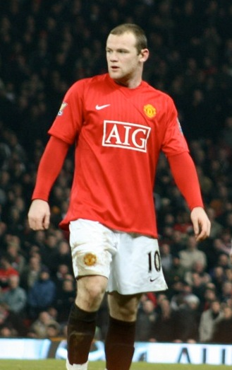 Wayne Rooney